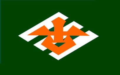 Flag of Kozagawa Wakayama